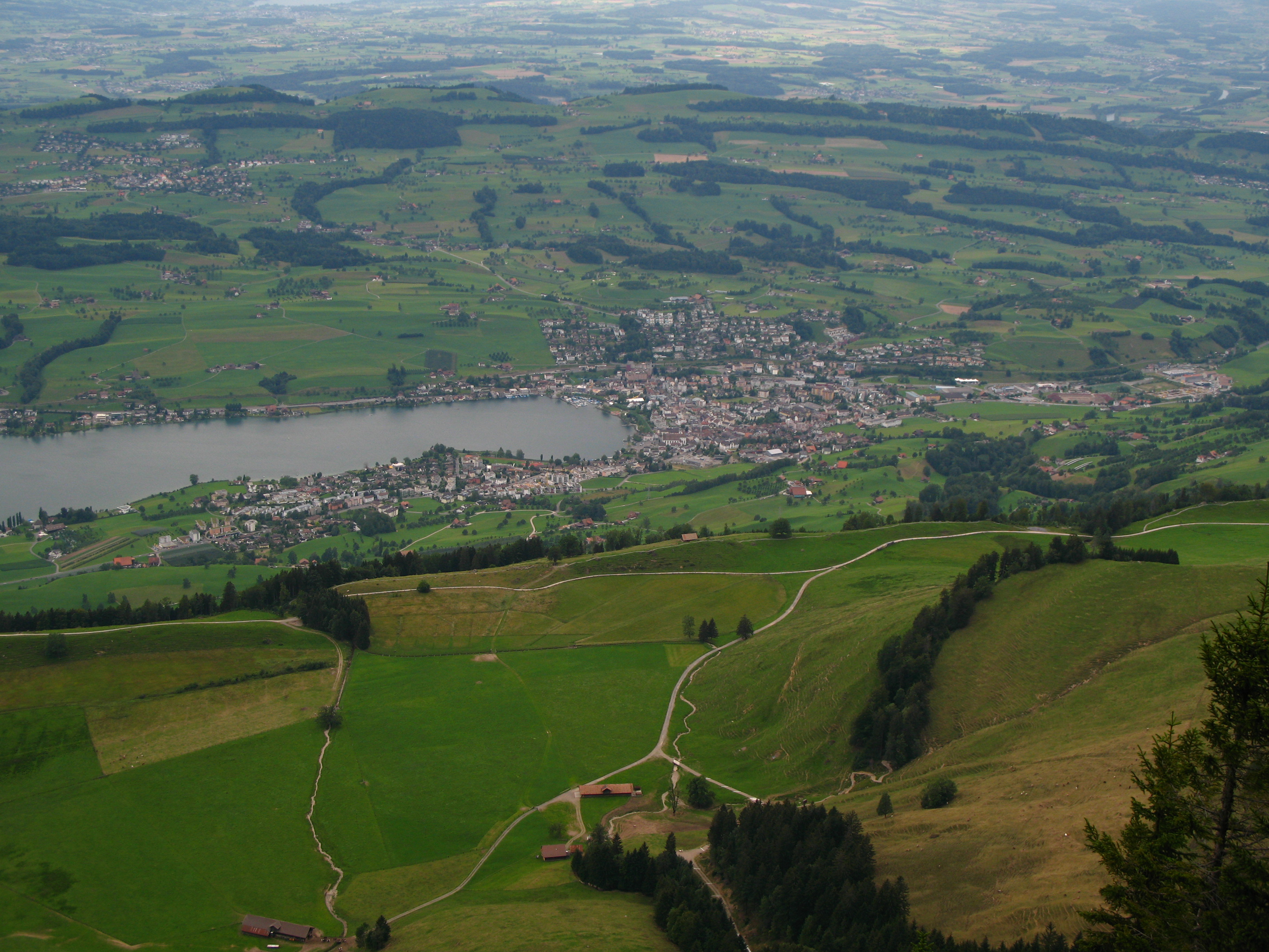 Küssnacht viewed from the summit of Rigi, Switzerland